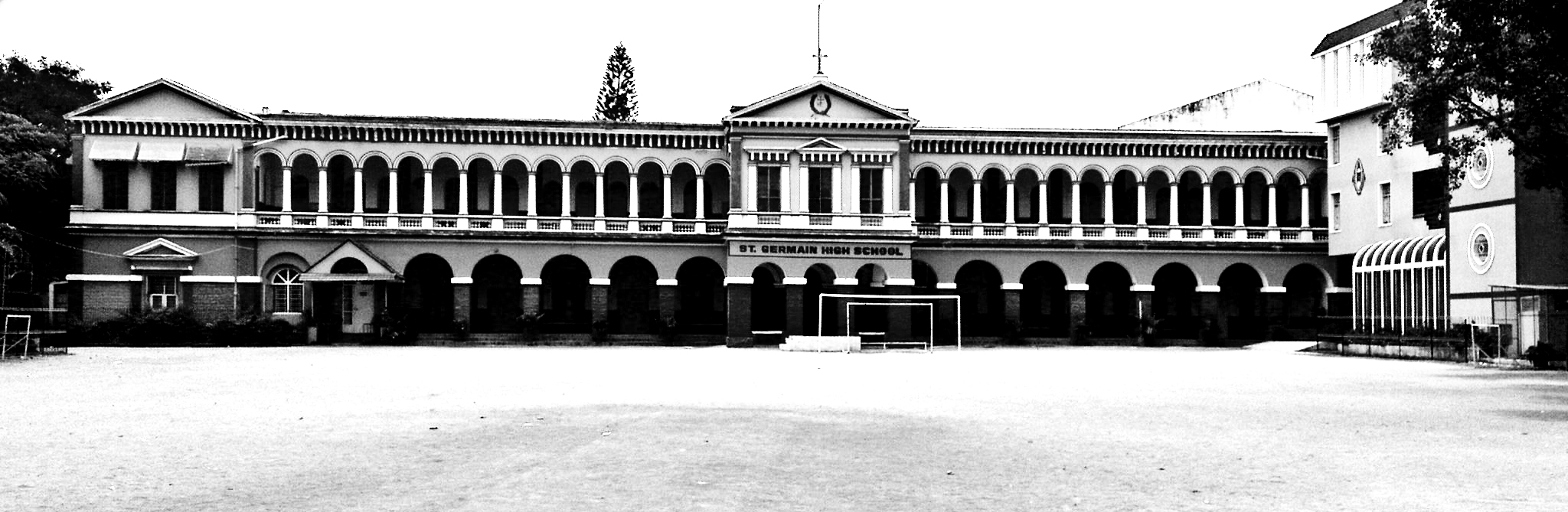 A recent image of St.Germain High School